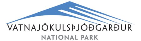 The official logo of Vatnajökull National Park.